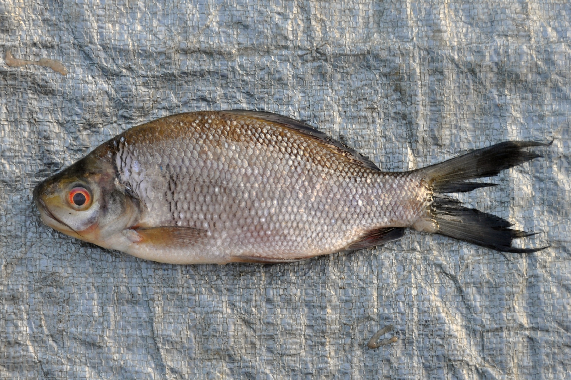 Osteochilus melanopleurus, 140 mm SL (standard length). From Ketapang, West Kalimantan, Indonesia.